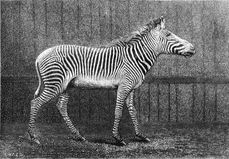 Type specimen used by Émile Oustalet in 1882 to first described Equus grevyi, i.e. the zebra given to Jules Grévy, then president of France, by the government of Abyssinia.